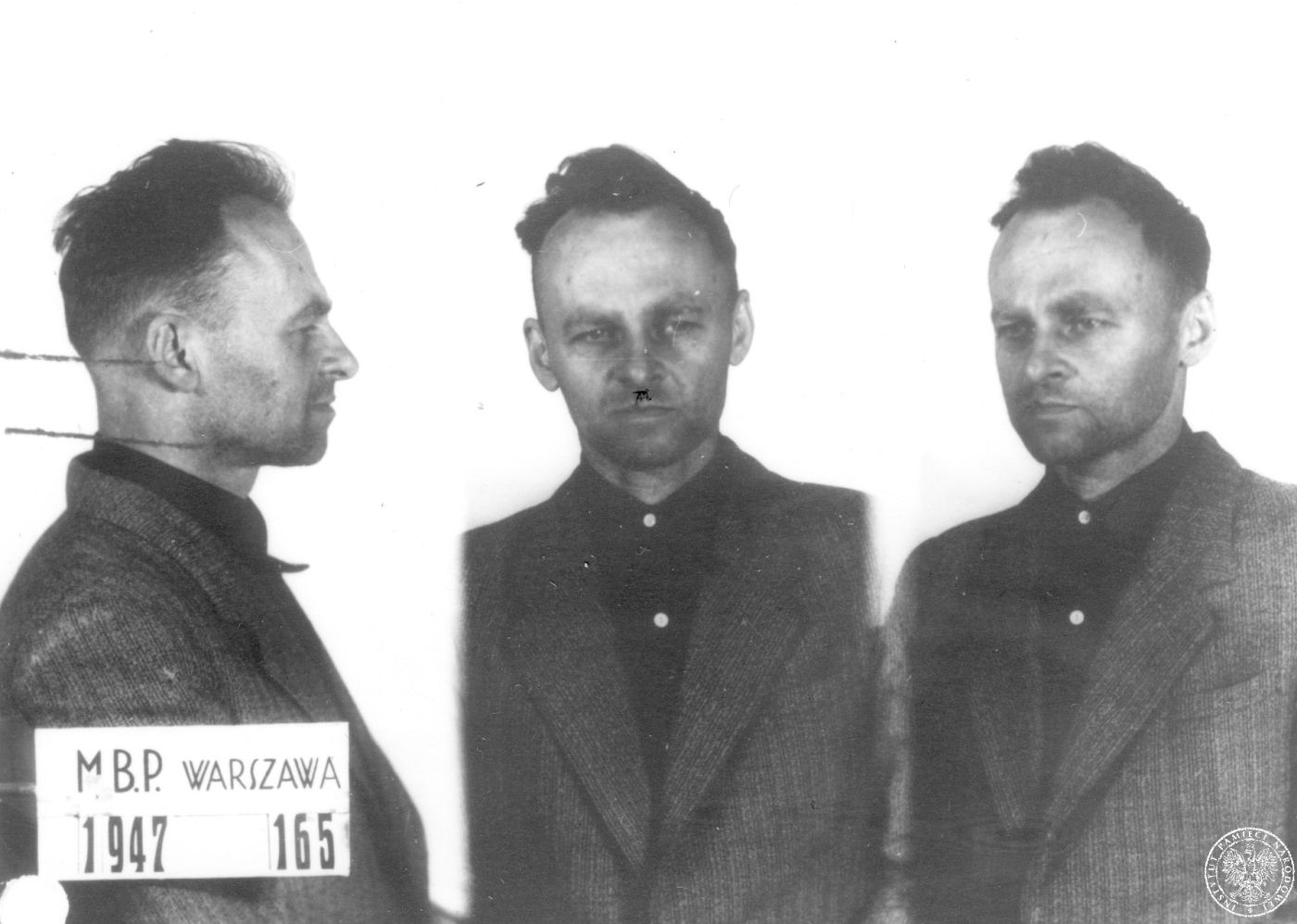 Photos of Pilecki from Warsaw's Mokotow prison (1947)